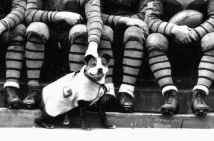 Jazz Bo, nicknamed "Hoya", the first mascot to use the name, poses with the 1927 Georgetown University American football team wearing a school jacket.